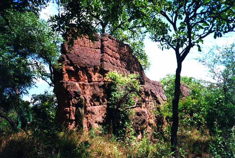 this is Africa's largest single ancient monument situated in Ogun State, off the main road in rain forest of south-west Africa. it's a 100 mile long wall believed to have been constructed a millennium ago.